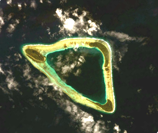 NASA astronaut image of Namoluk Atoll, Chuuk State, Federated States of Micronesia